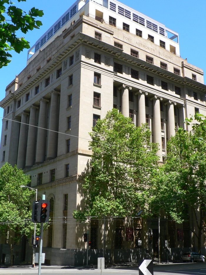 Former Port Authority Building. Market Street, Melbourne.